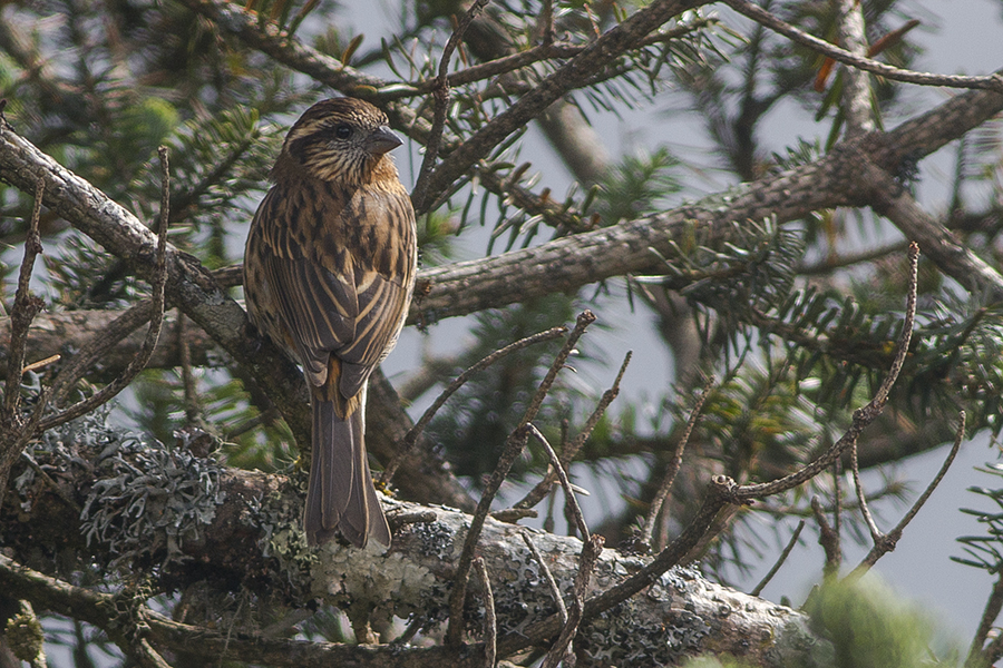 The species White-browed Rosefinch (♀) had been photographed at Pangolakha Wildlife Sanctuary in Sikkim, India on 08.11.2015.